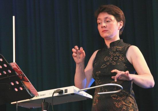 Photo of thereminist Lydia Kavina playing in Ekaterinburg.